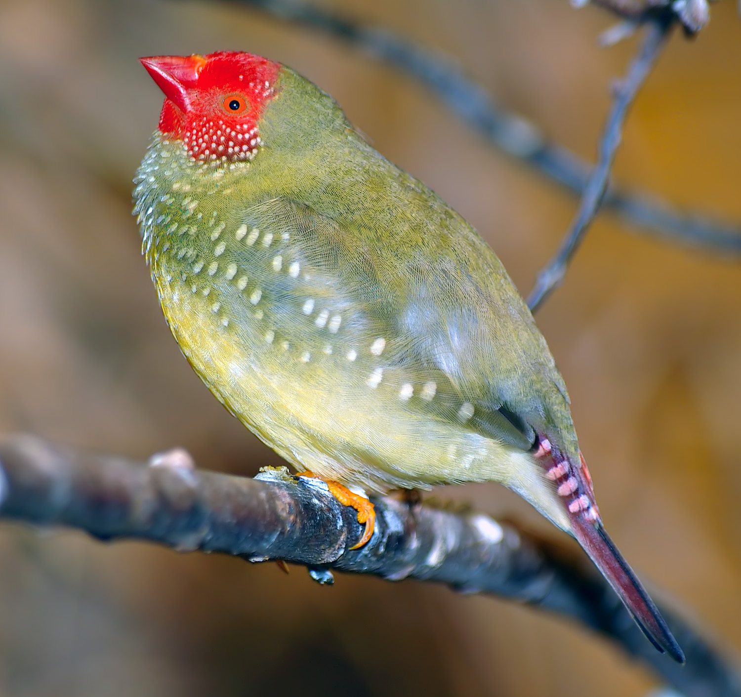 This image shows a Star Finch (Neochmia ruficauda).